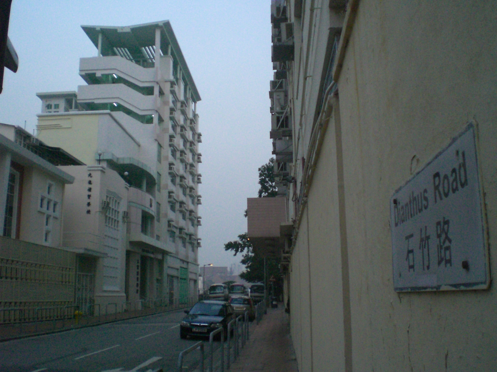 九龍塘 石竹路 九龍禮賢學校